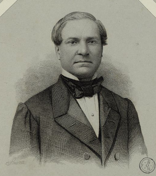 José Lourenço da Luz Gomes (1800-1882)